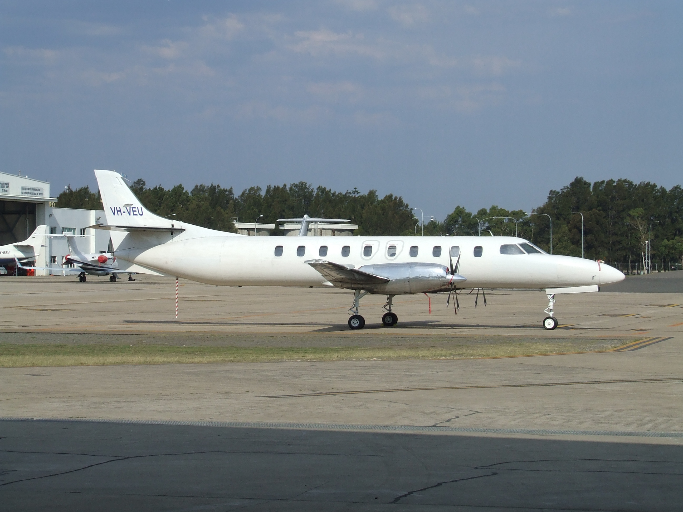 A Fairchild Metro 23 at Sydney International Airport. Digital photo of SA227-DC VH-VEU taken by YSSYguy on November 28 2006 & uploaded for use in article about Sino Swearingen Aircraft Corporation.